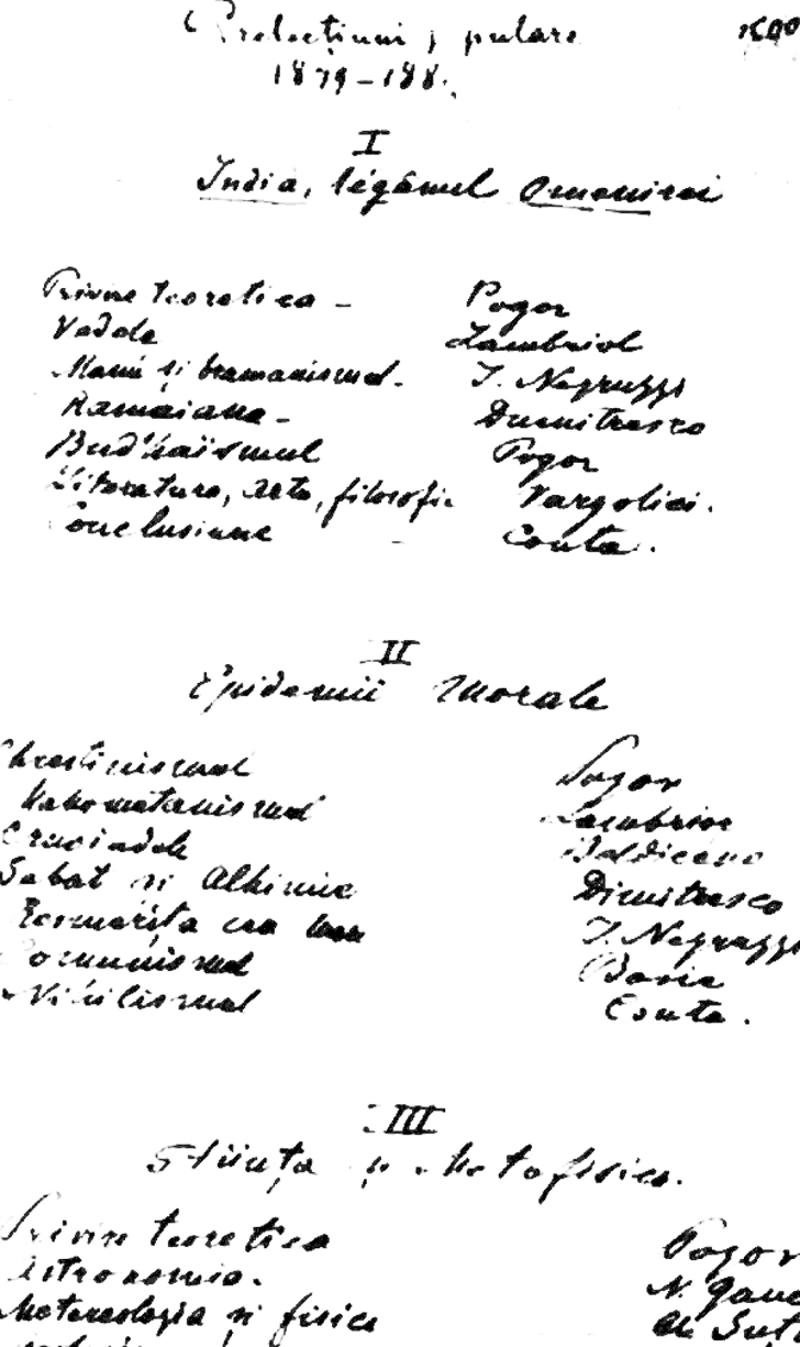 Prelecţiunile populare ("Popular Lectures") by the Romanian Junimea society, 1879 to 1880, project by Vasile Pogor. Conferences on religious, ideological, cultural subjects. Participants identifiable by means of Z. Ornea, Junimea şi junimismul, Minerva, Bucharest, 1998. Schedule: I. India, cradle of mankind Theoretical overview - [Vasile] Pogor Vedas - [Alexandru] Lambrior Manu and brahmanism - I[acob] Negruzzi Ramayana - Dimitresco [A. Dimitrescu?] Buddhism - Pogor Literature, art, philosophy - [Ştefan] V[â]rgolici Conclusion - [Vasile] Conta II. Moral epidemics Christianity - Pogor Mahometanism - Lambrior The Crusades - Beldicéno [Nicolae Beldiceanu] Sabbath and alchemy - Dimitresco The great upheaval - I. Negruzzi Communism - Bosie [Vasile Bossy] Nihilism - Conta III. Science and Metaphysics Theoretical overview - Pogor Astronomy - N[icolae] Gane Meteorology and physics - Al[exandru] [Ş]uţu